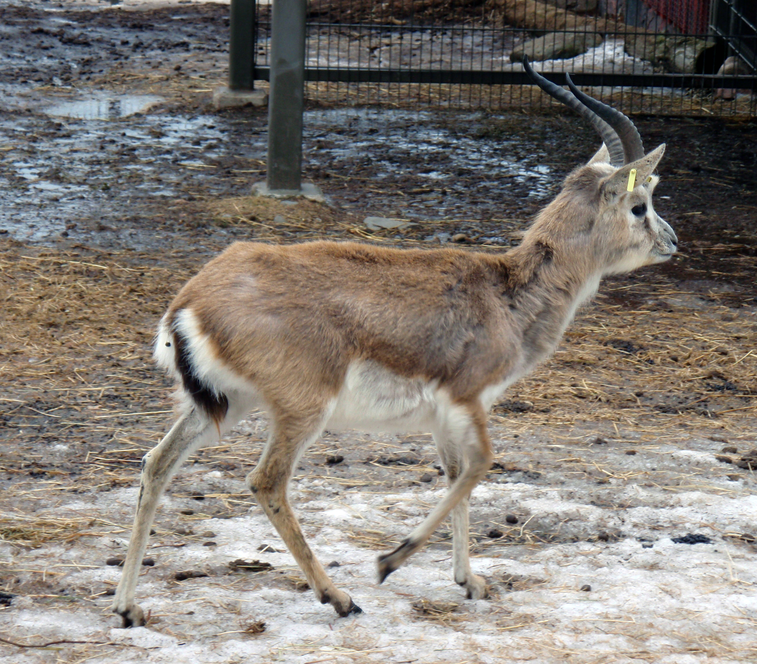 Goitered Gazelle (Gazella subgutturosa) at Korkeasaari Zoo.